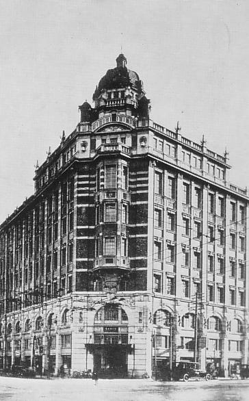 Dai-ichi Mutual Life Insurance Company Building in the Taisho era